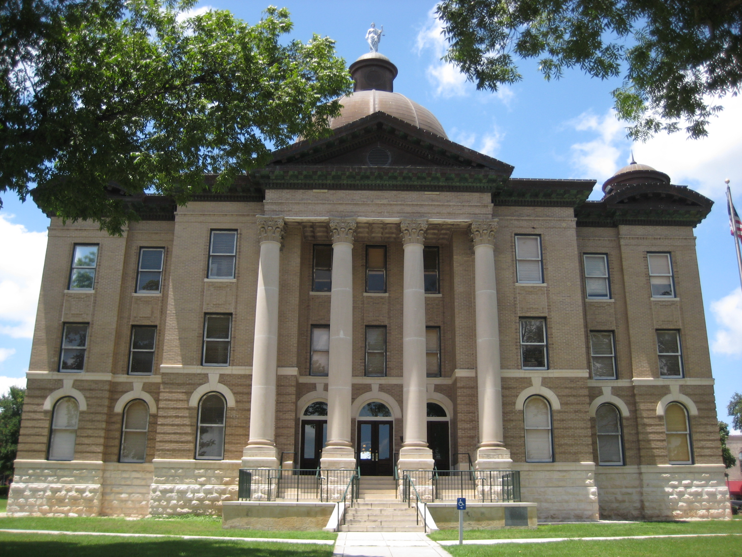 Hays County Courthouse at San Marcos, Texas